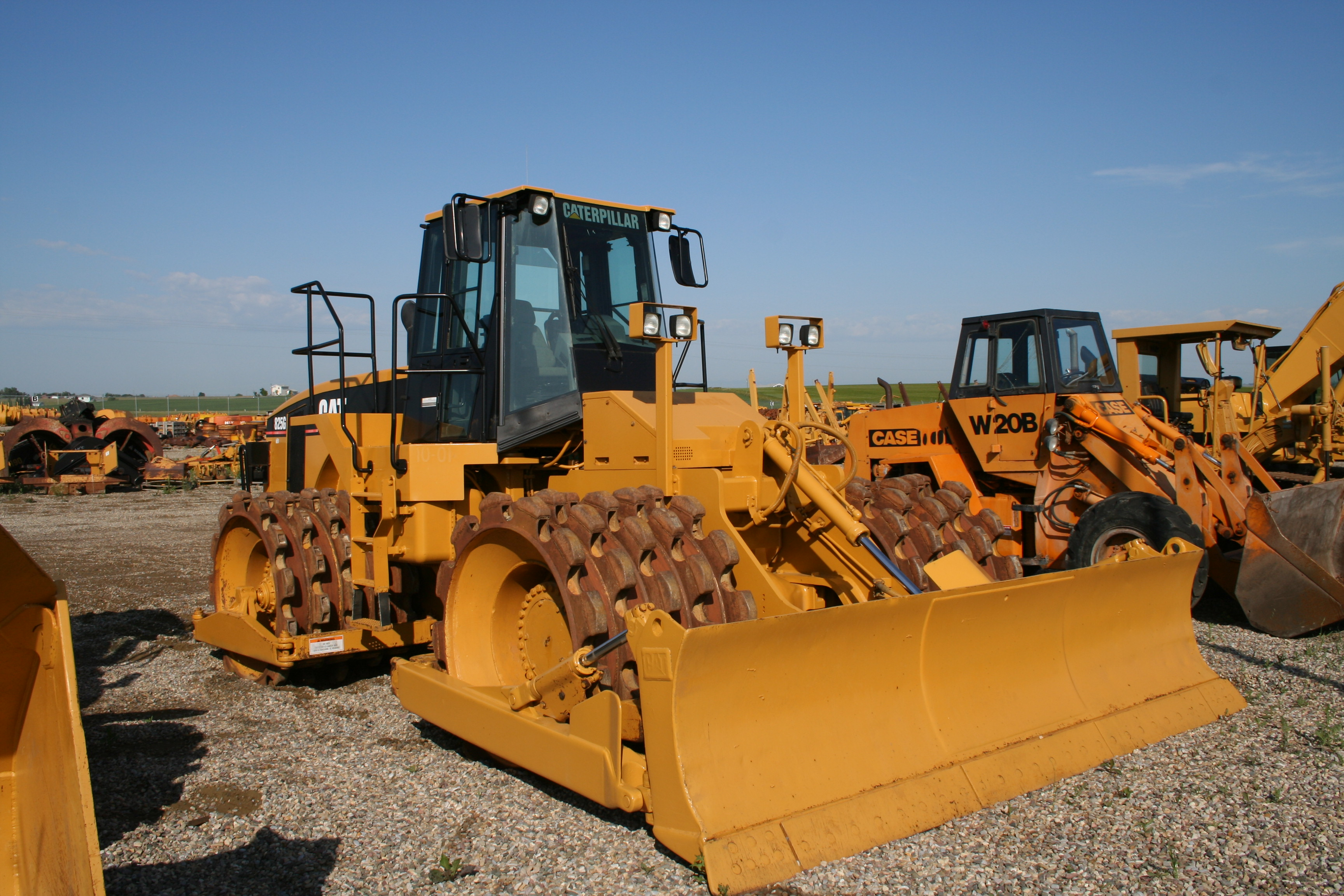 Caterpillar 825G compactor used in soil compaction applications